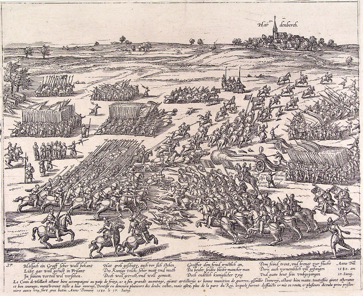 Battle on the fields of Hardenberg on the 17th of June, 1580. Etching. Rotterdam, Prentenkabinet Museum Boijmans Van Beuningen (inv.no. BdH 26251 (PK)). Bierens de Haan bequest.